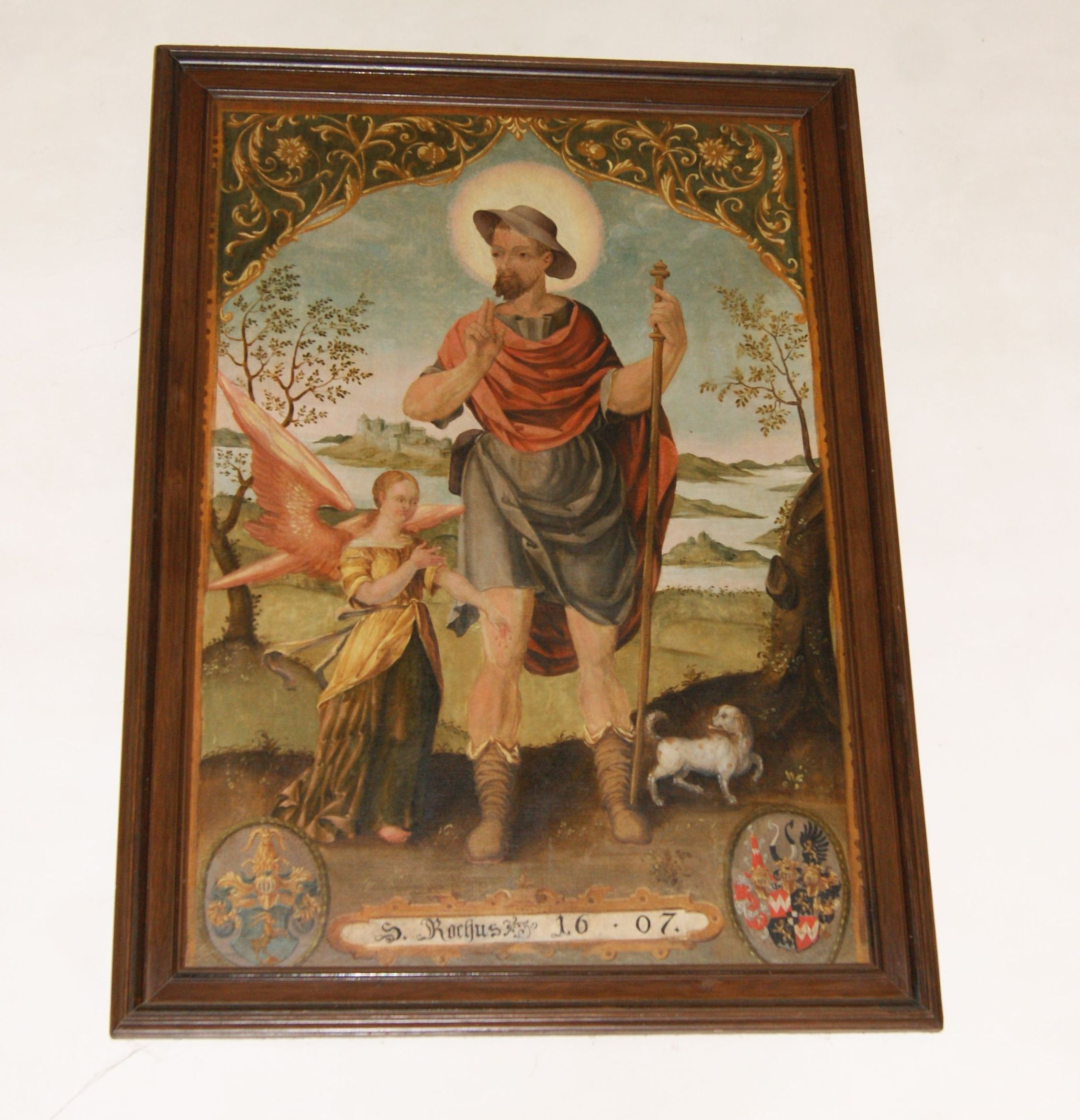 Chapel St. Rochus in Hohenems, Vorarlberg, Austria. Painting of Saint Roch from 1607 (former painting from the altar). Right below the coat of arms of Welsberg and on the left below the coat of arms of Hohenems.